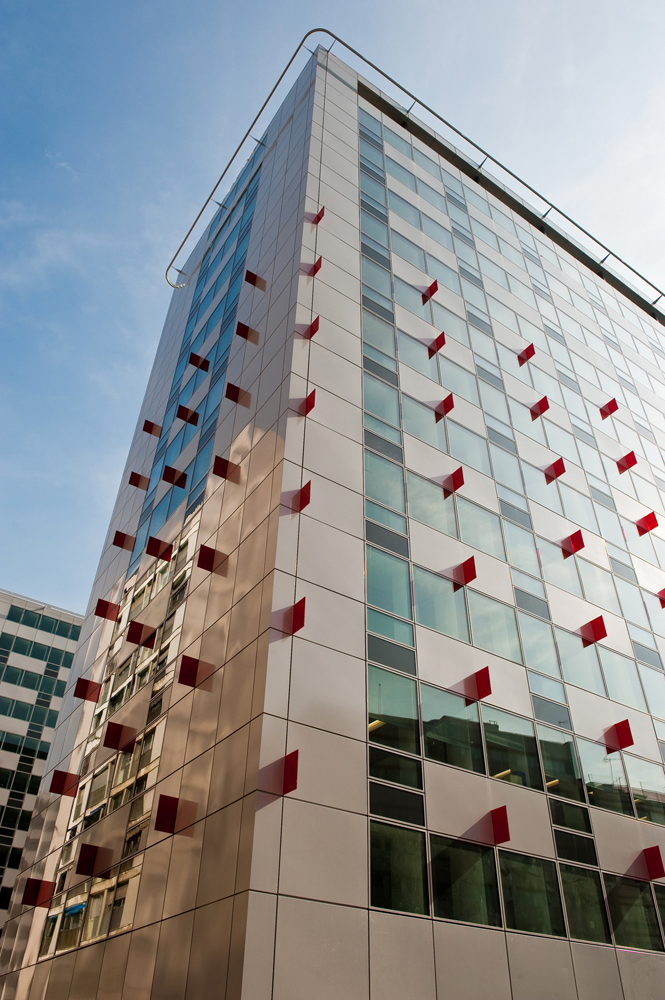 Carré Suffren - A building new generation